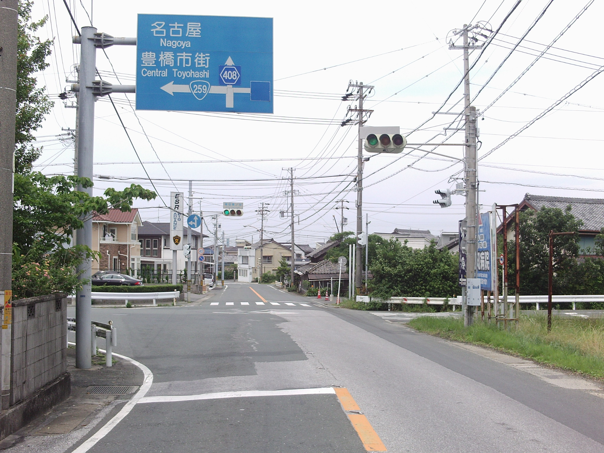 Aichi prefectural road No.408 in Uetacho, Toyohashi, Aichi.